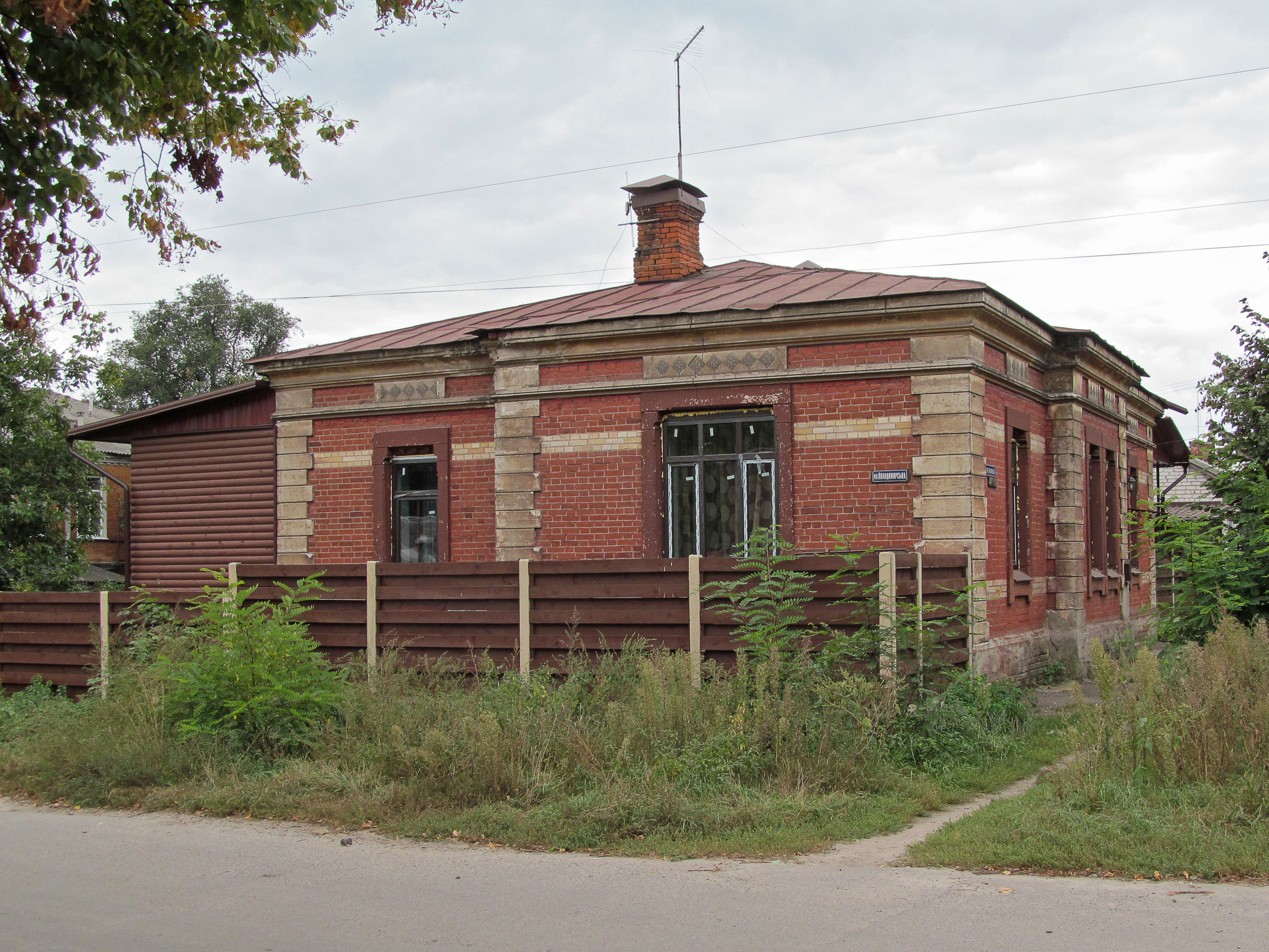 Kotliarevskoho Street, Kharkiv, Ukraine. Vasyl Krychevsky own house.